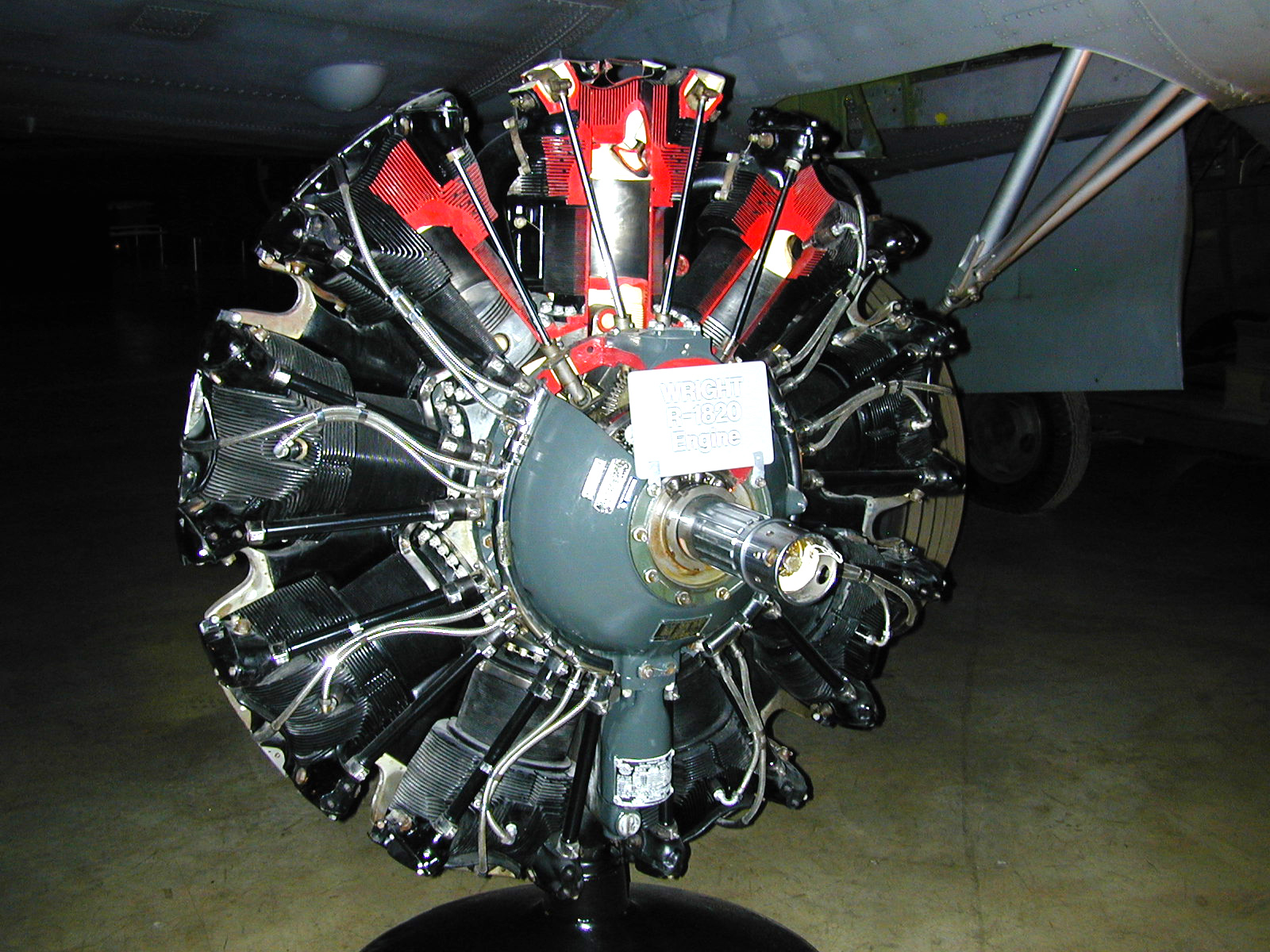 Curtiss-Wright R-1820 Radial Engine